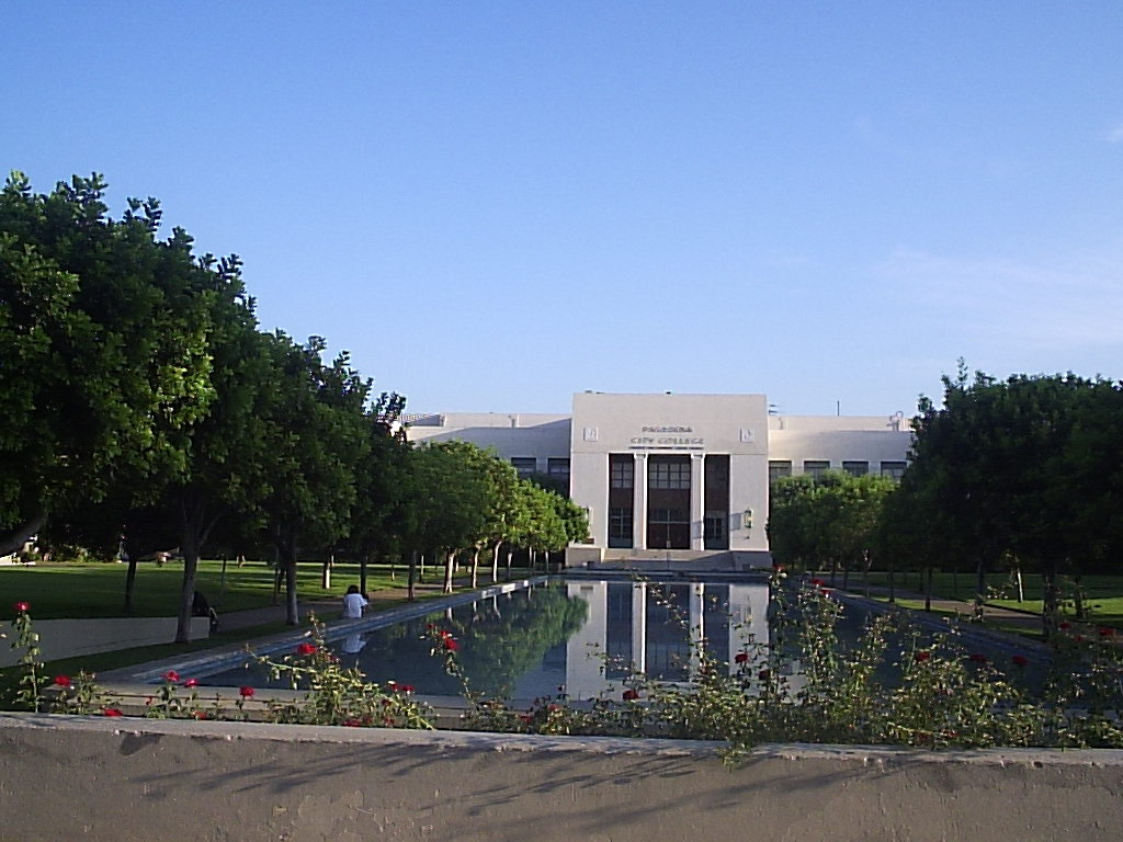 Pasadena City College and reflecting pool in Pasadena, California, USA.